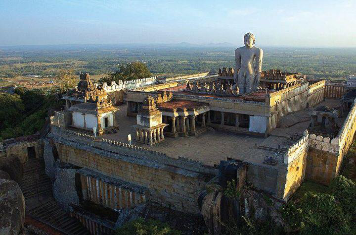 This photo shows the lord bahubali statue from a different view